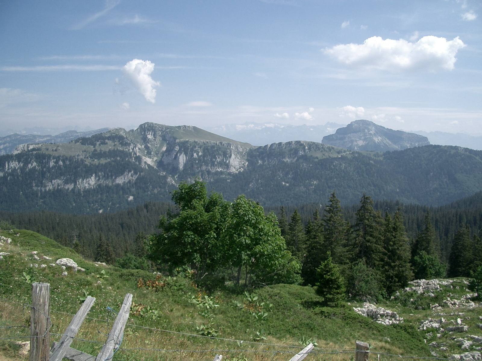 my own photograph